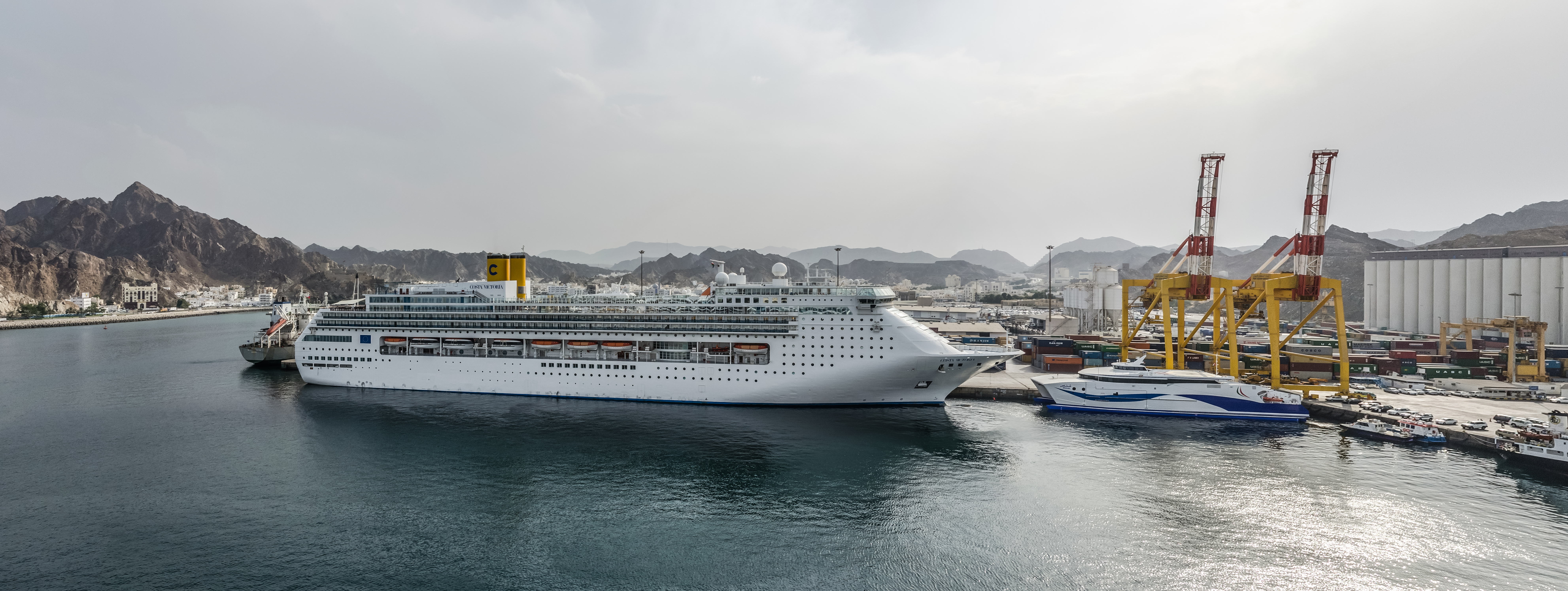 Costa Victoria and the surrounding Port Sultan Qaboos in Muscat, Oman as seen from another cruise ship